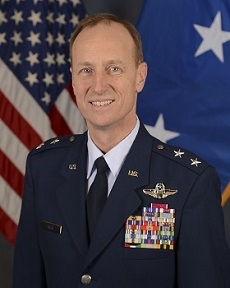 Maj. Gen. Jon K. Kelk